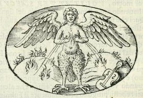 Detail of a page from the Delle imprese trattato by Giulio Cesare Capaccio, showing the Siren Parthenope.